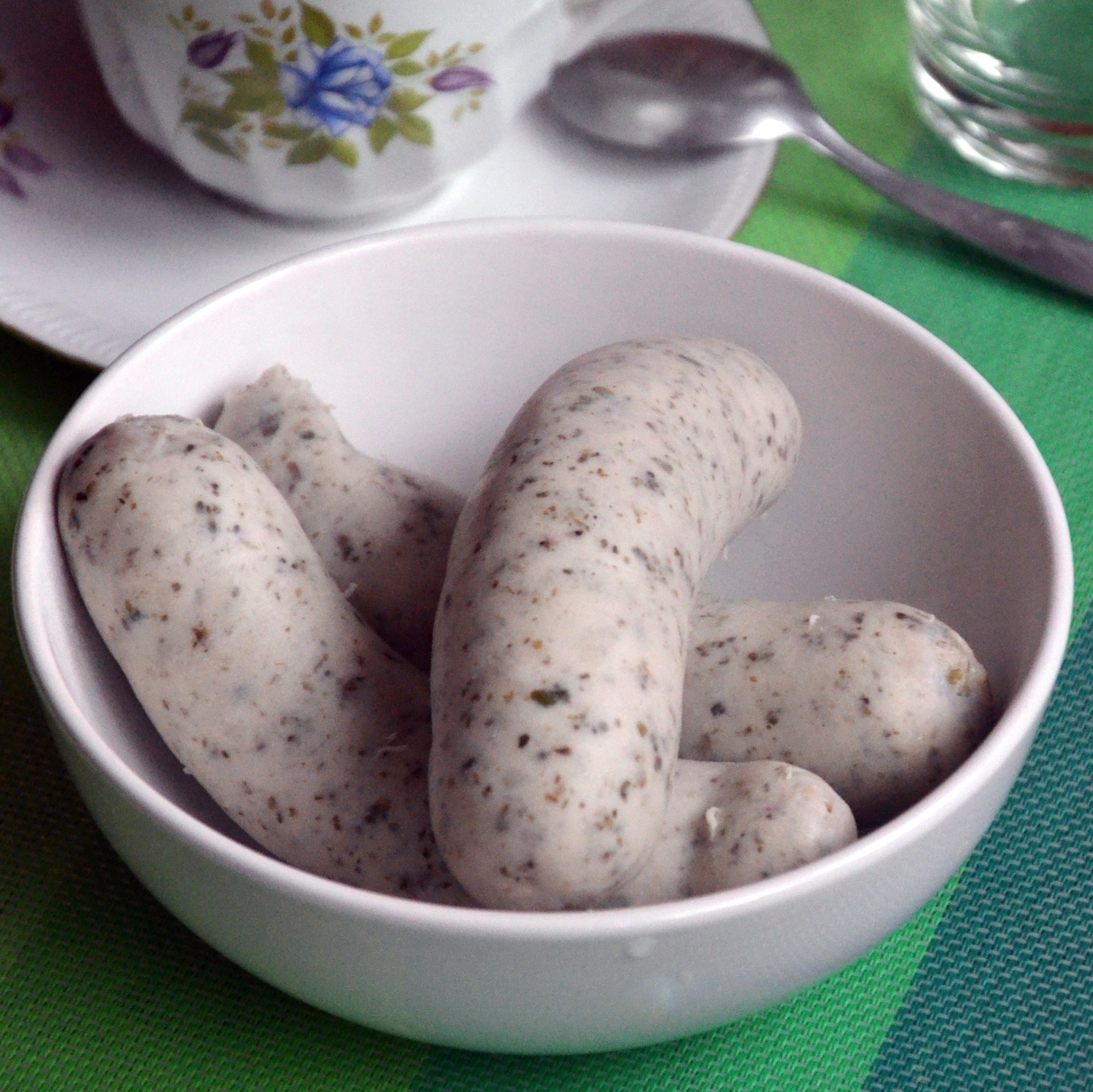 Weisswurst